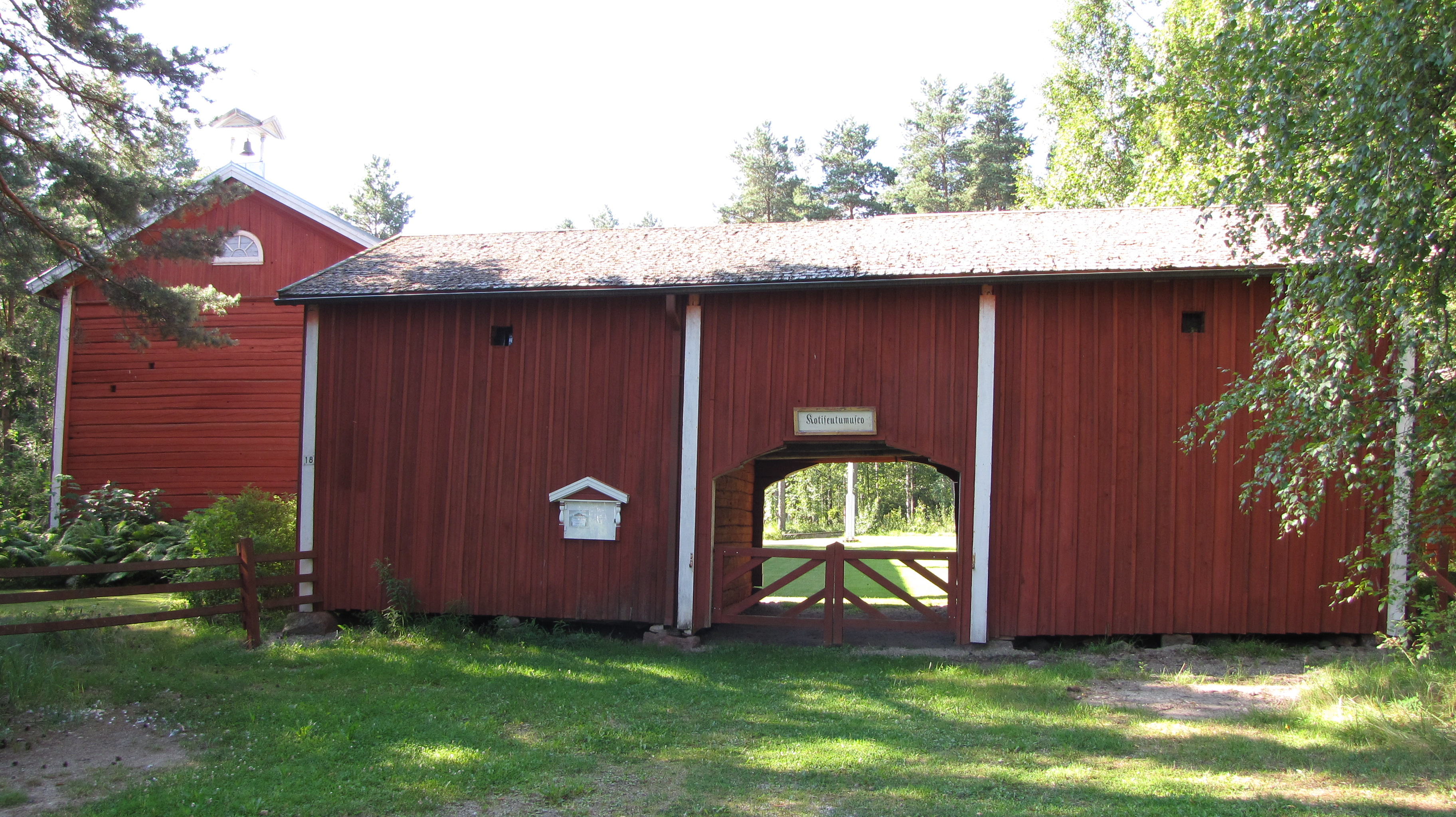 Kauhajoki local heritage museum (Kauhajoen kotiseutumuseo in Finnish) in Kauhajoki, Finland.